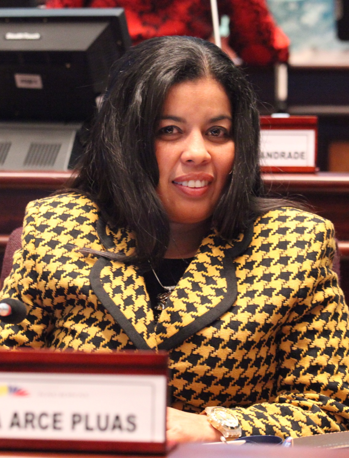 Alexandra Arce. Cropped version of File:Asambleísta Alexandra Arce en la Sesión Inaugural de la Asamblea Nacional 2013-2017 (8740509713).jpg